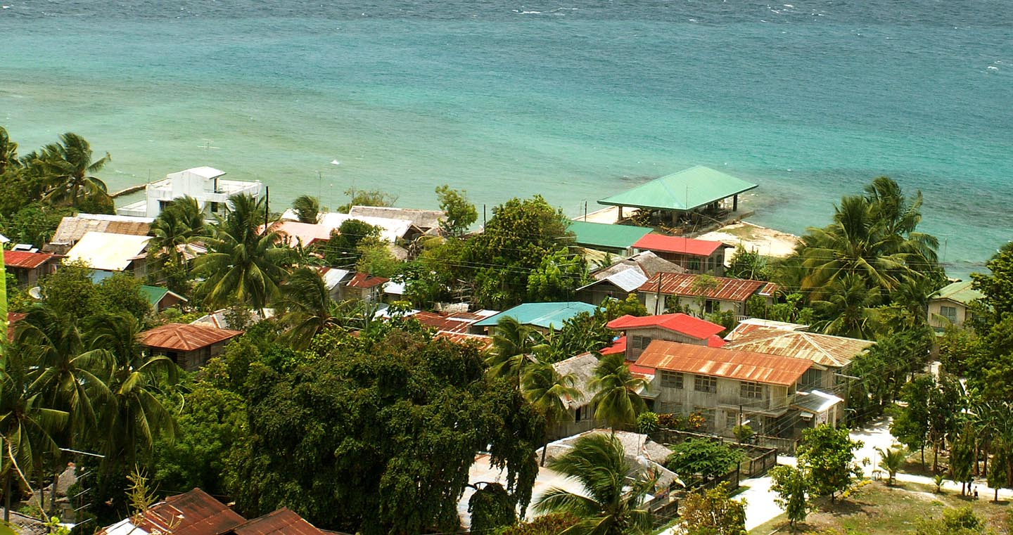 Photo by S. Crypt.